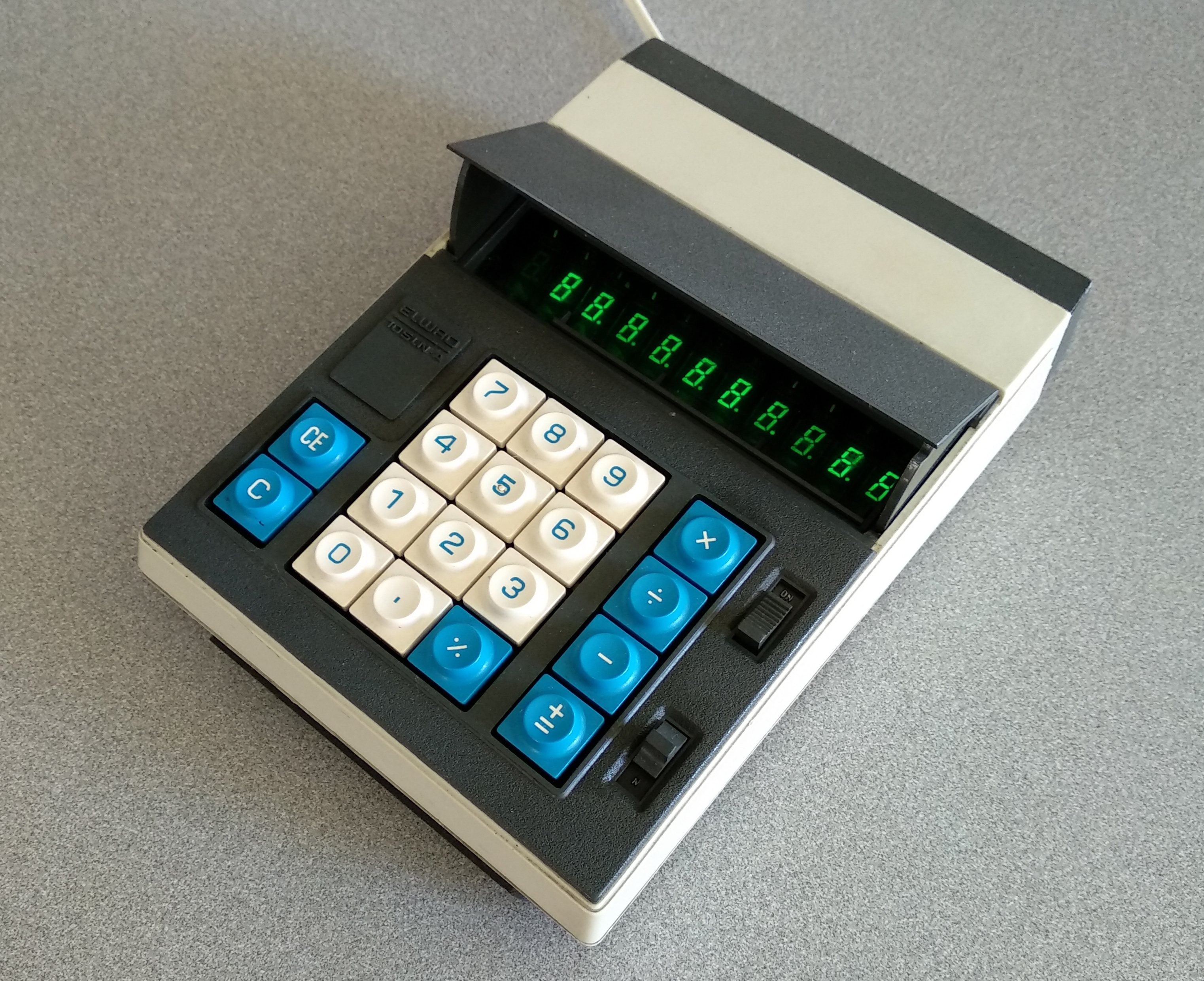 Elwro 105LN-A calculator